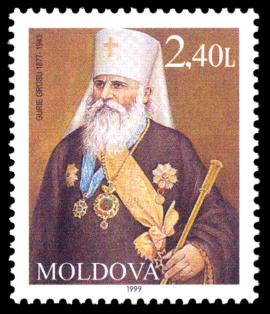 Stamp of Moldova